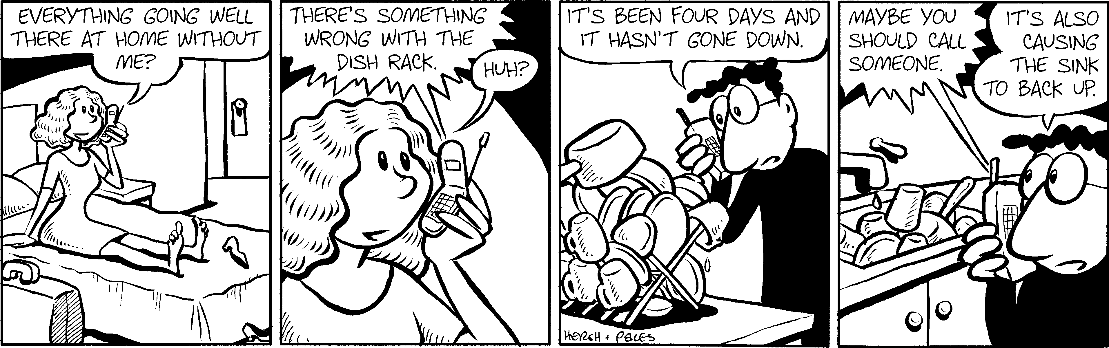 Daily comic strip about a young married Jewish couple in New York City. Originally created for King Features Syndicate in 2002-2003. Written by Stephen Hersh (of "Bliss" fame) and drawn by Nina Paley.